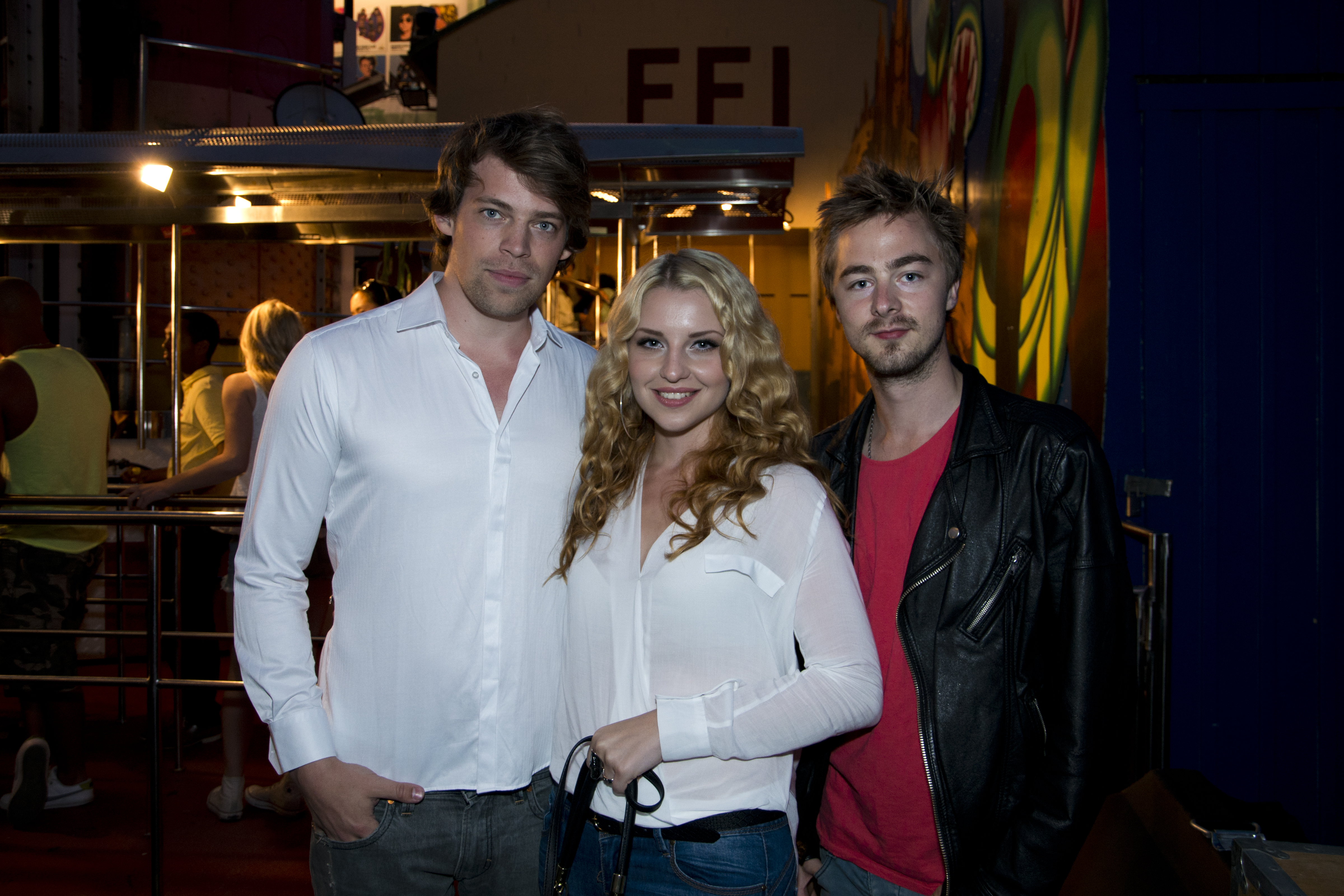 Dirty Loops visit Sommarkrysset as guests, Gröna Lund (Stockholm)